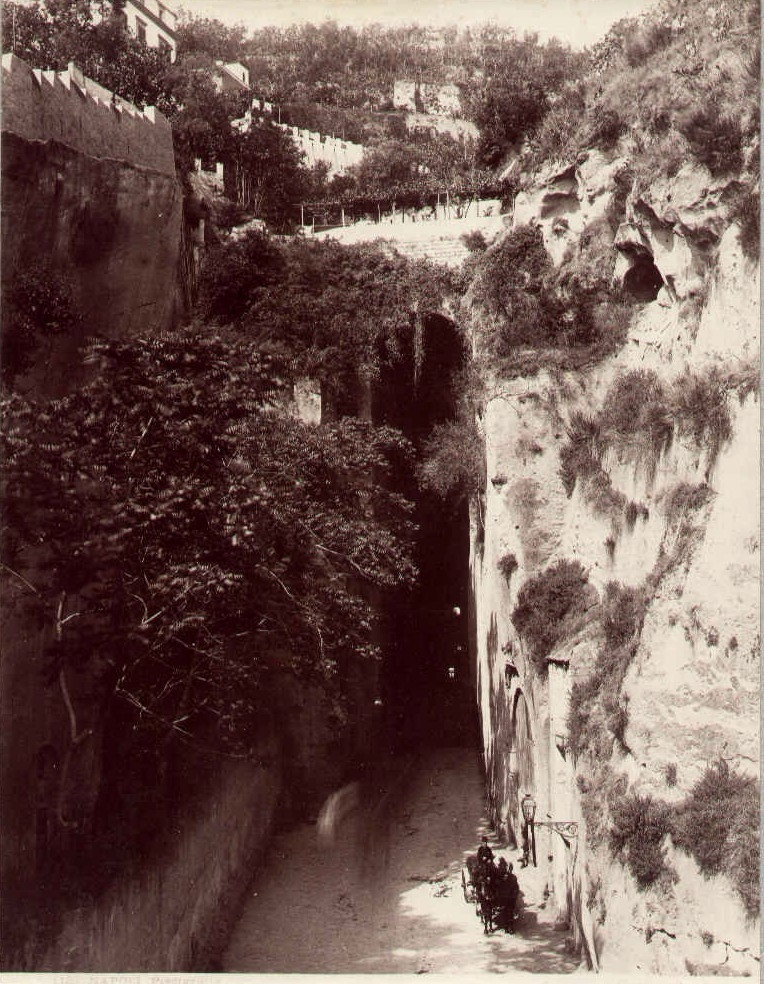 Giorgio Sommer (1834-1914), "Naples. Piedigrotta". # 1125.